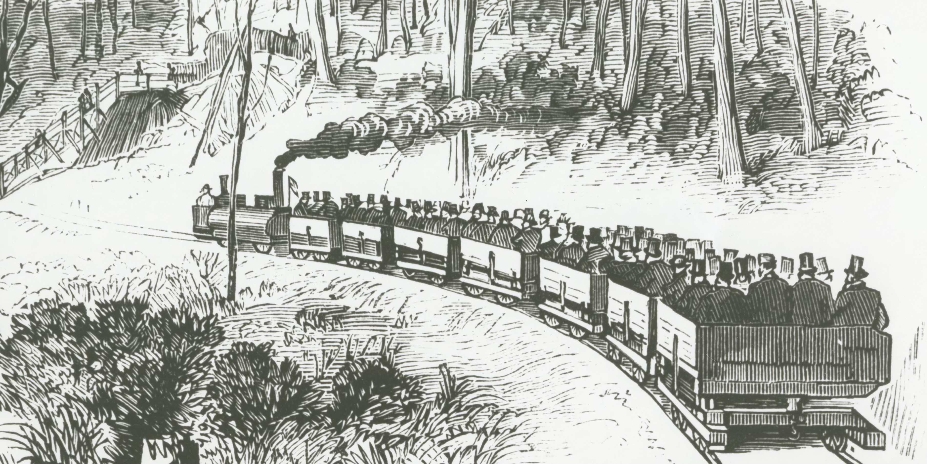 British and Tasmanian Charcoal Iron Company's railway in June 1876. The railway ran from what is now the northern part of Beauty Point, Tasmania to the company's minesite at Anderson's Creek. The railway was standard gauge. The railway is shown carrying guests on the day of the opening of the company's blast furnace.